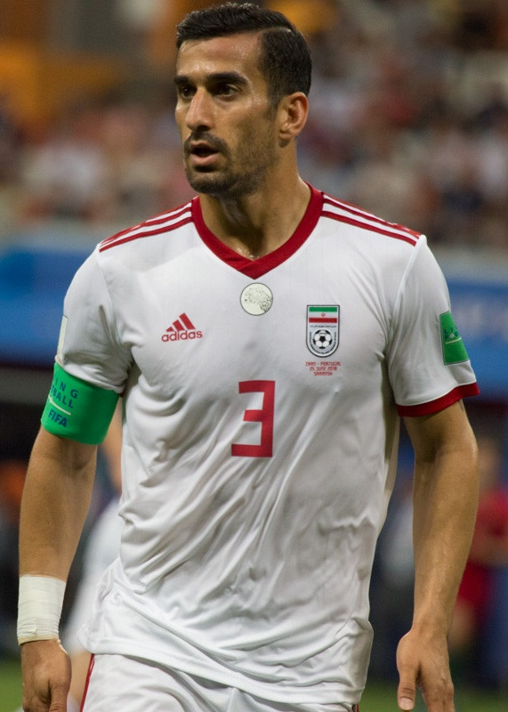 Iran-Portugal match, 2018 FIFA World Cup Group B